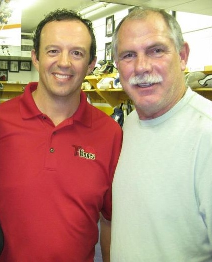 Terry Yake with Bruce Affleck in August 2011